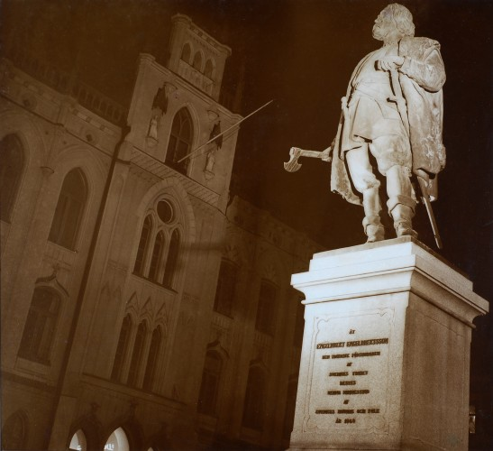 Engelbrekt Engelbrektsson staty på Stortorget i Örebro (rest 1864)